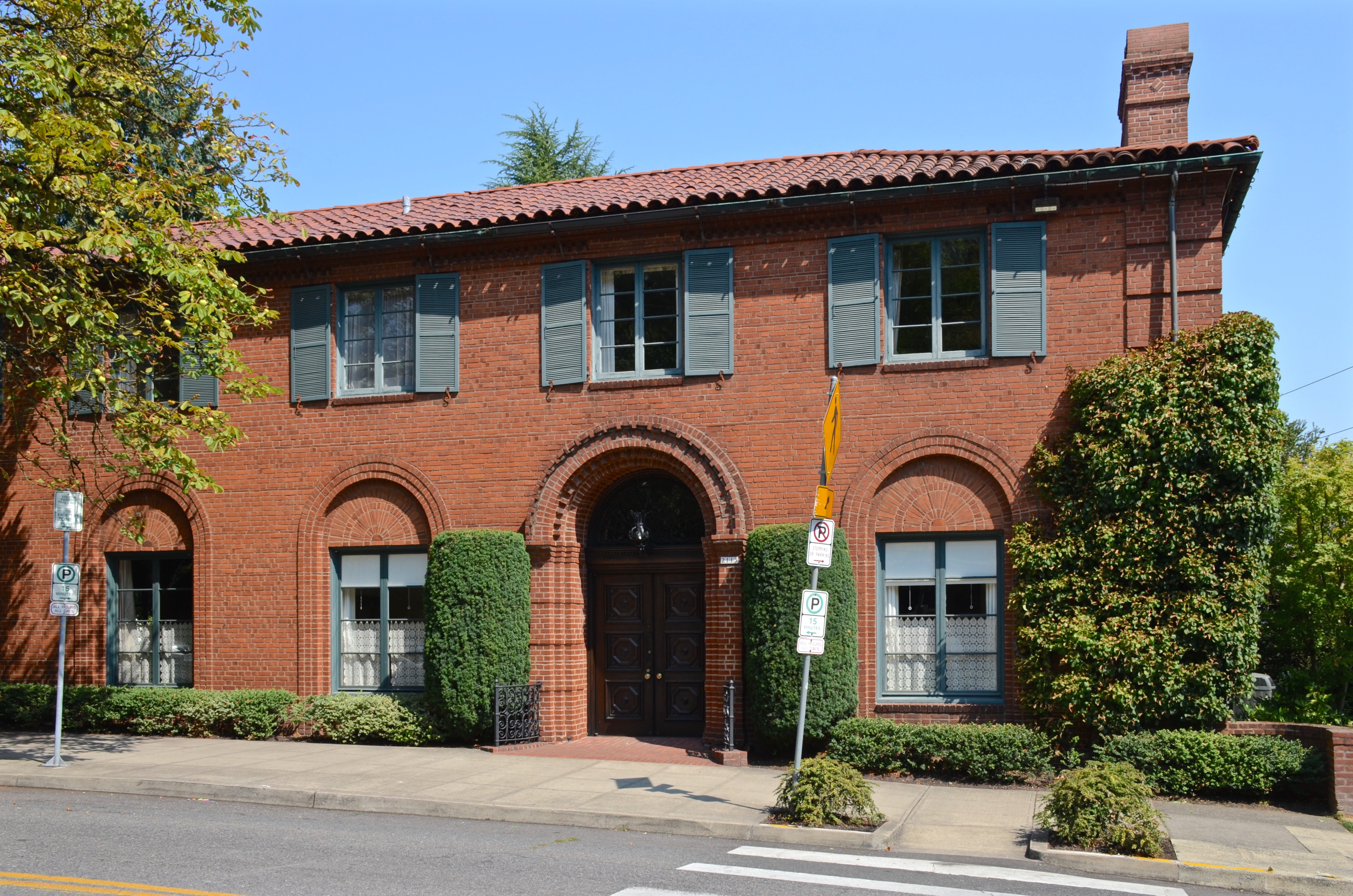 The south façade (main façade) of the clubhouse building of the Town Club, in Portland, Oregon, at 2115 S.W. Salmon Street.